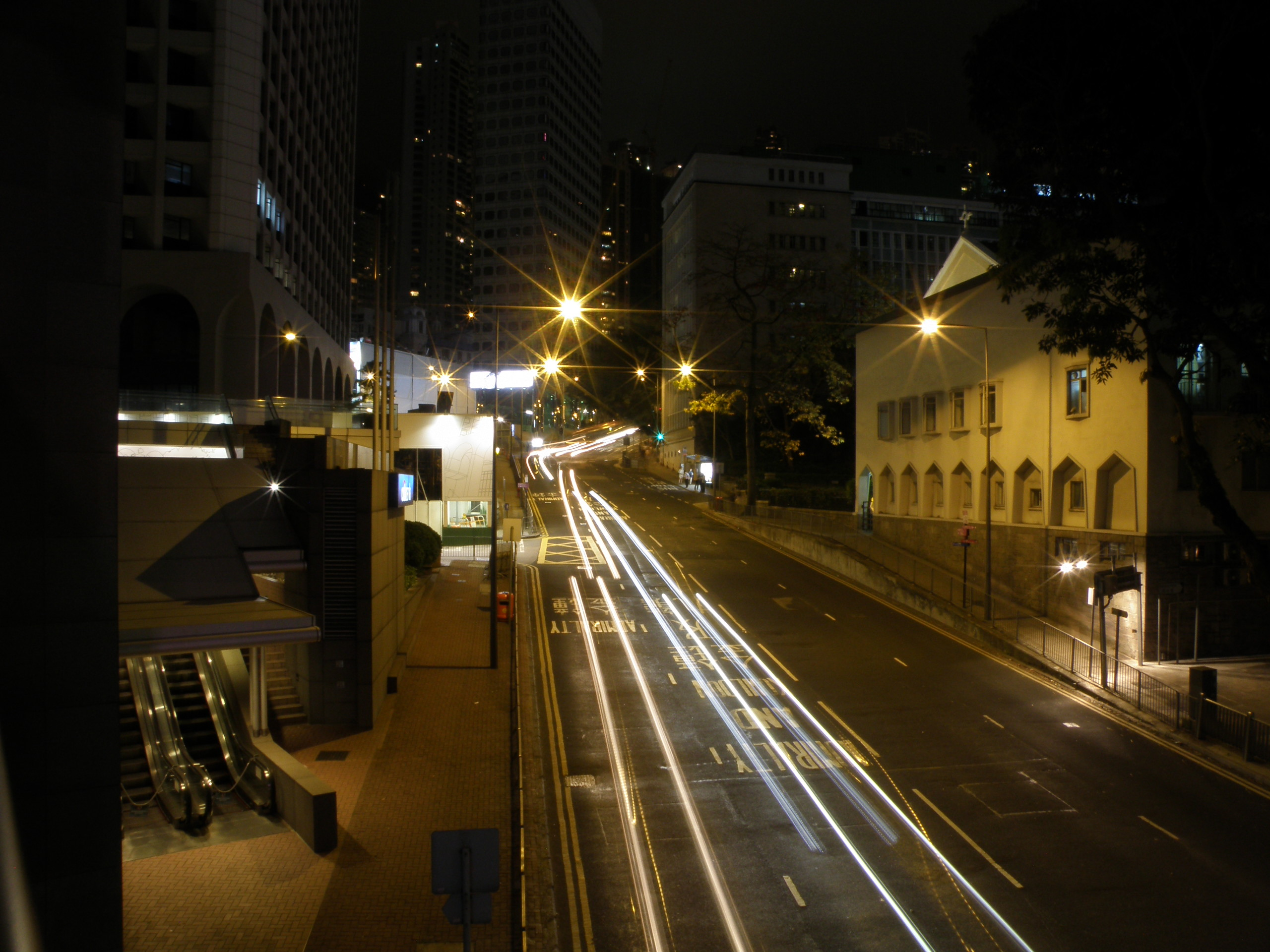 Garden Road in Central, Hong Kong.